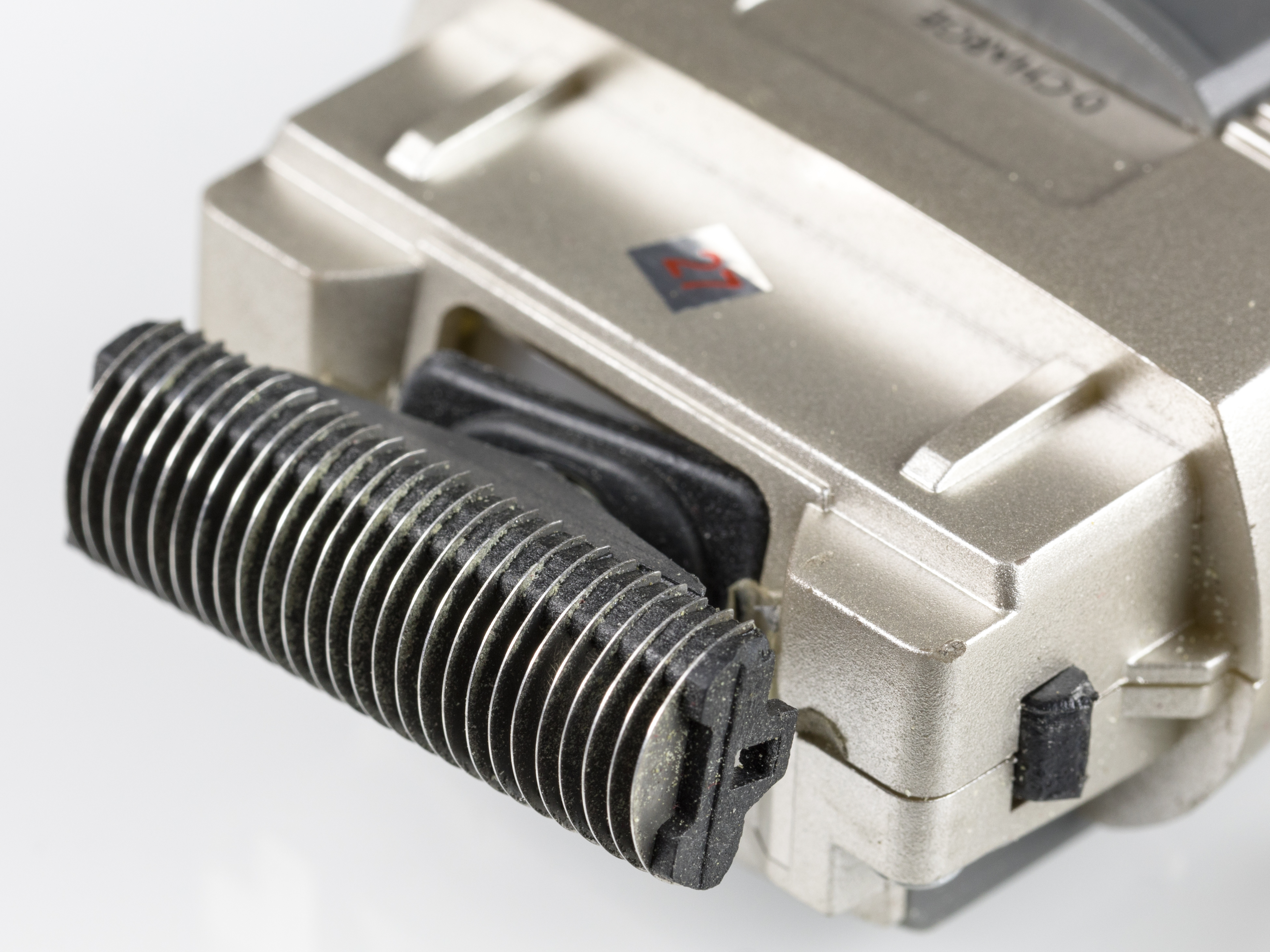 Huachang Shaver HC-6800